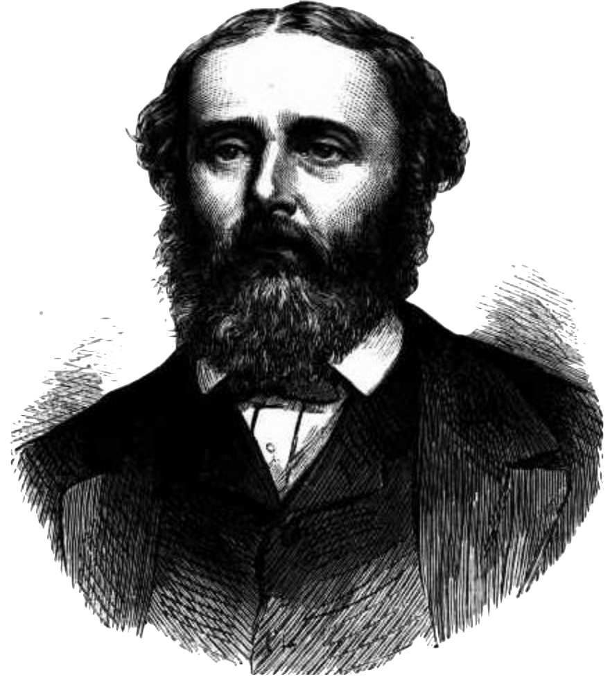 An illustration of Thomas Ferrier Hamilton, a member of the Colony of Victoria's Legislative Council.